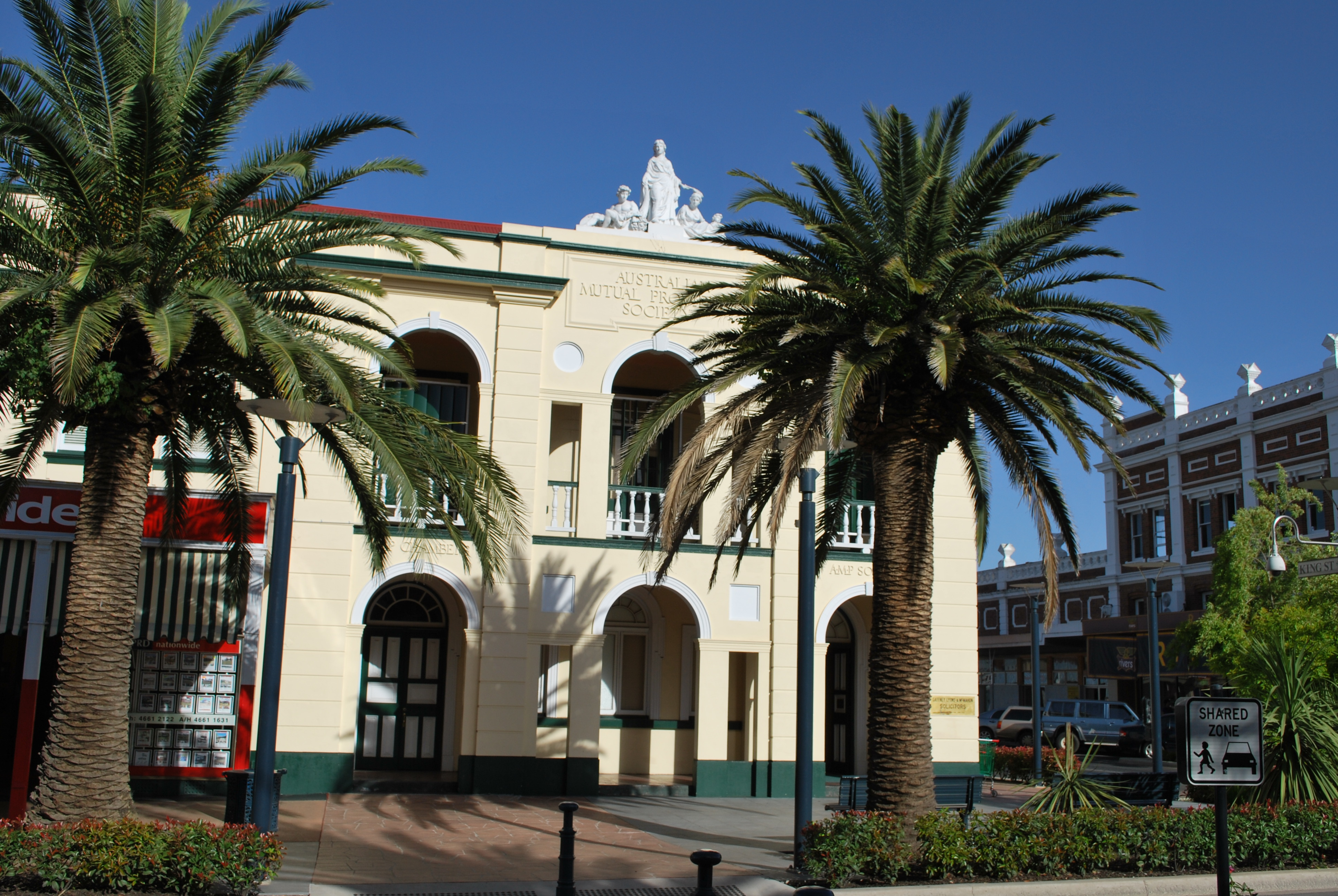 AMP building at Warwick, Queensland